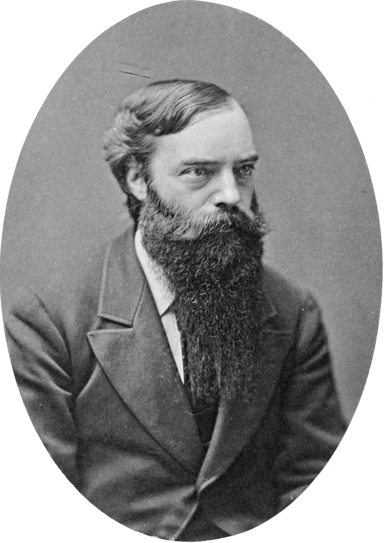 Portrait of Arthur Williams Wright, physicist and professor at the Sheffield Scientific School of Yale College, and one of the first three recipients of a PhD in the United States. Photo probably taken between the beginning of his term as a Yale professor in 1872 and 1879, when its source book was published.